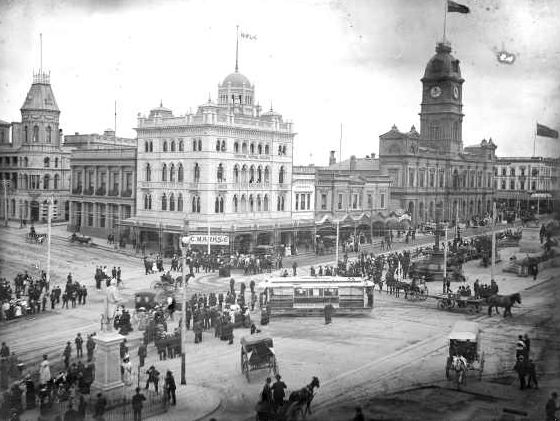 Sturt and Lydiard Streets Ballarat in 1899